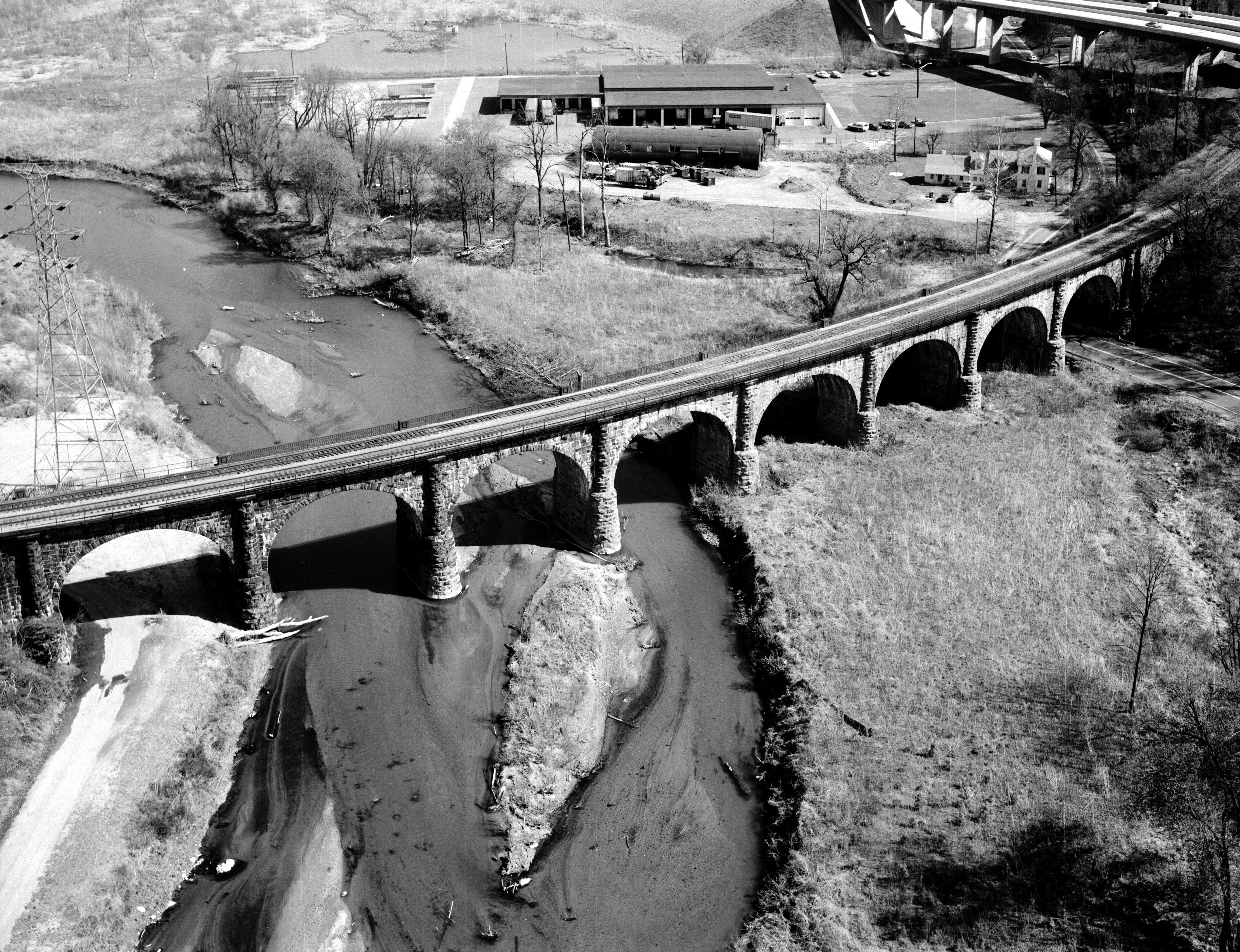 Baltimore & Ohio Railroad, Thomas Viaduct, Spanning Patapsco River, Elkridge, Howard County, MD Closer in aerial view looking southeast. Photo taken in 1977.